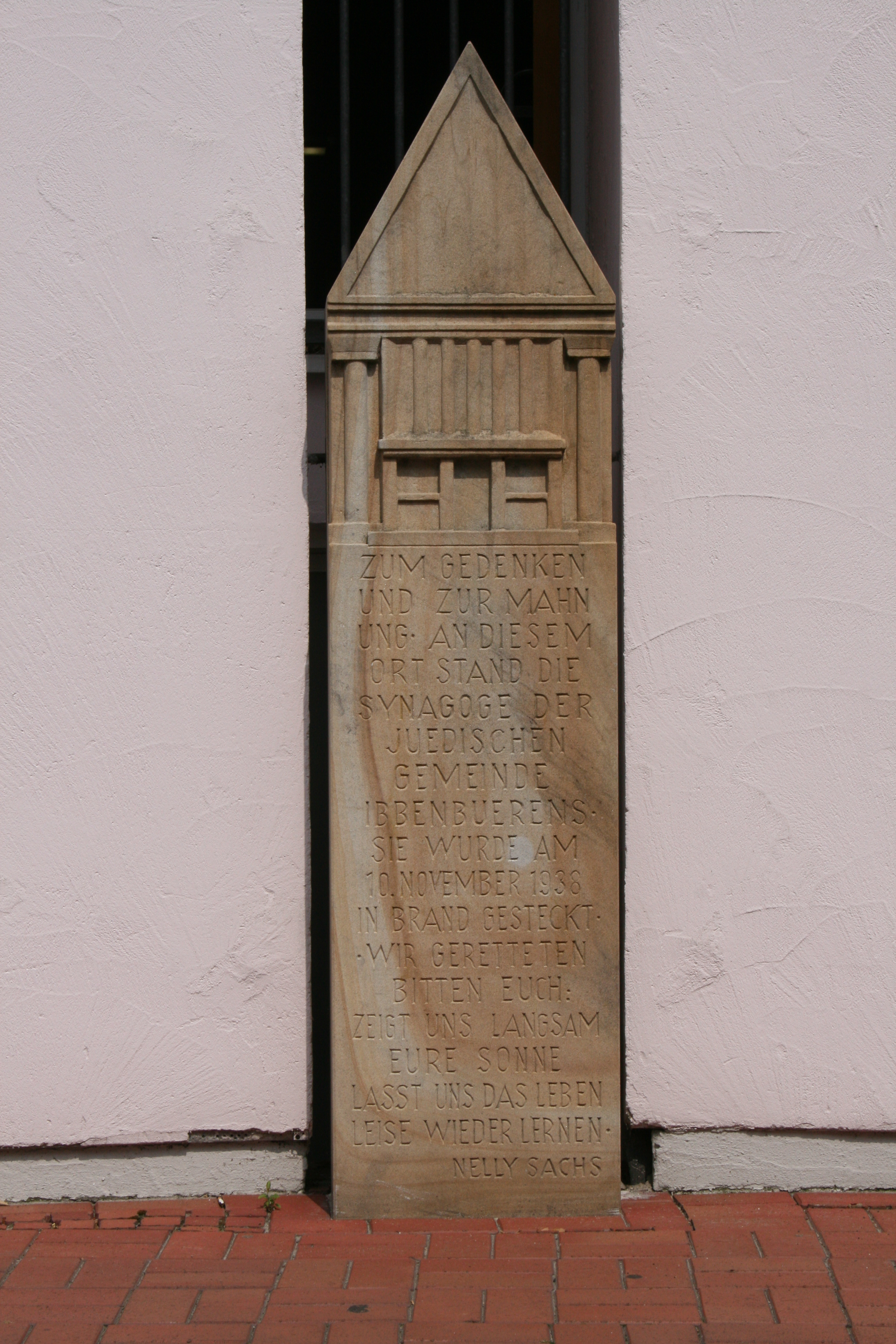 Memorial stone for the Synagoge in Ibbenbüren, which was destroyed by the Nazis in November 1938